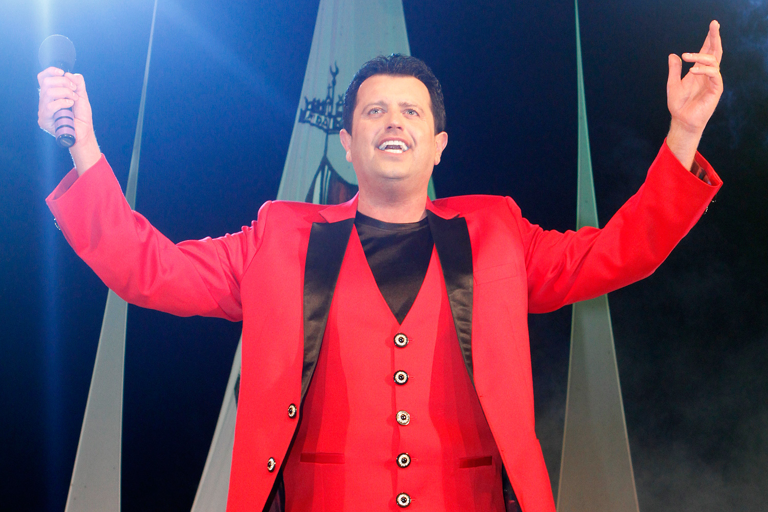 Singer Rytis Cicinas